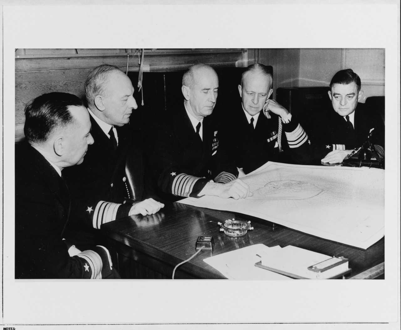 Admiral Ernest M. King, Chief of Naval Operations and COMINCH, U.S. Fleet, looks at a map of the Midway Islands. L to R: Rear Admiral John H. Newton, Sub-chief of Naval Operations. Vice Admiral Frederick Horne, Vice Chief of Naval Operations; Vice Admiral Russell Wilson, Chief of Staff to Admiral King; and Rear Admiral Richard S. Edwards, Deputy Chief of Staff, U.S. Fleet. Photo taken 10 March 1942 - 15 August 1942.